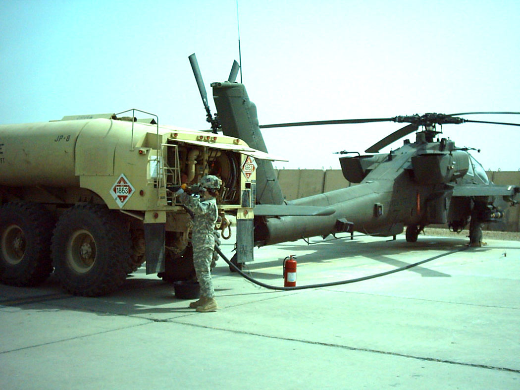 A petroleum supply specialist with 1-4 Attack Reconnaissance Battalion refuels an AH-64D Apache Helicopter at Camp Taji. The fuelers are part of the battalion's distribution platoon and have pumped more than 830,000 gallons of fuel during their eight months in Iraq. See more at Army.mil